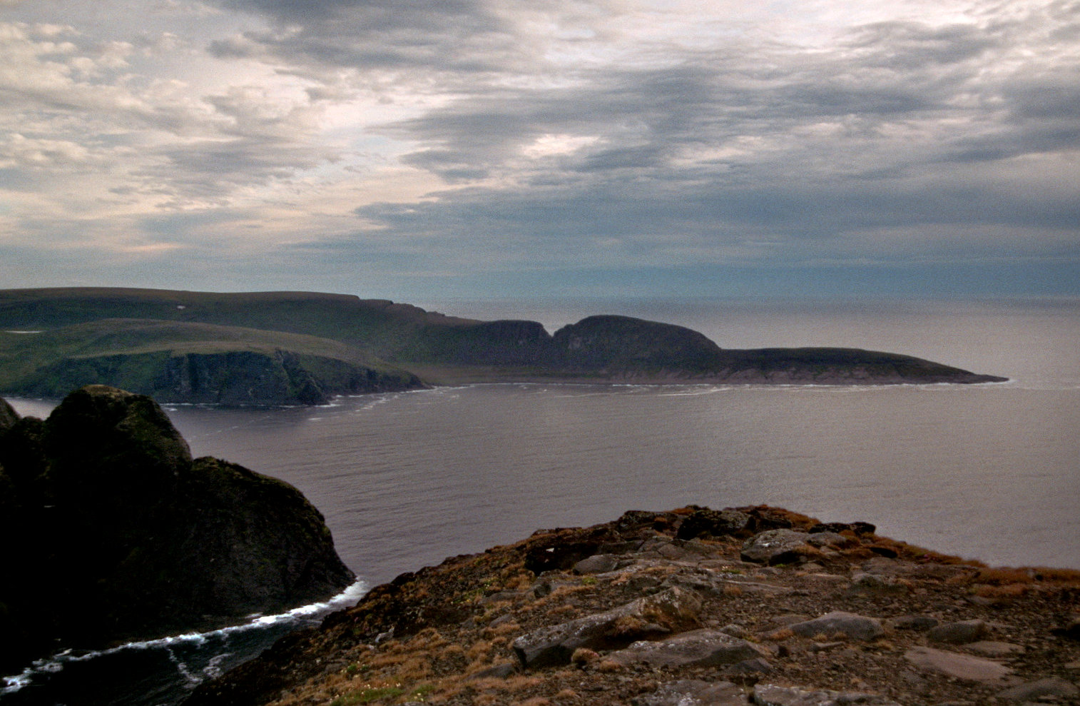 Knivsjellsodden, Magerøya (North Cape Island) in northern Norway